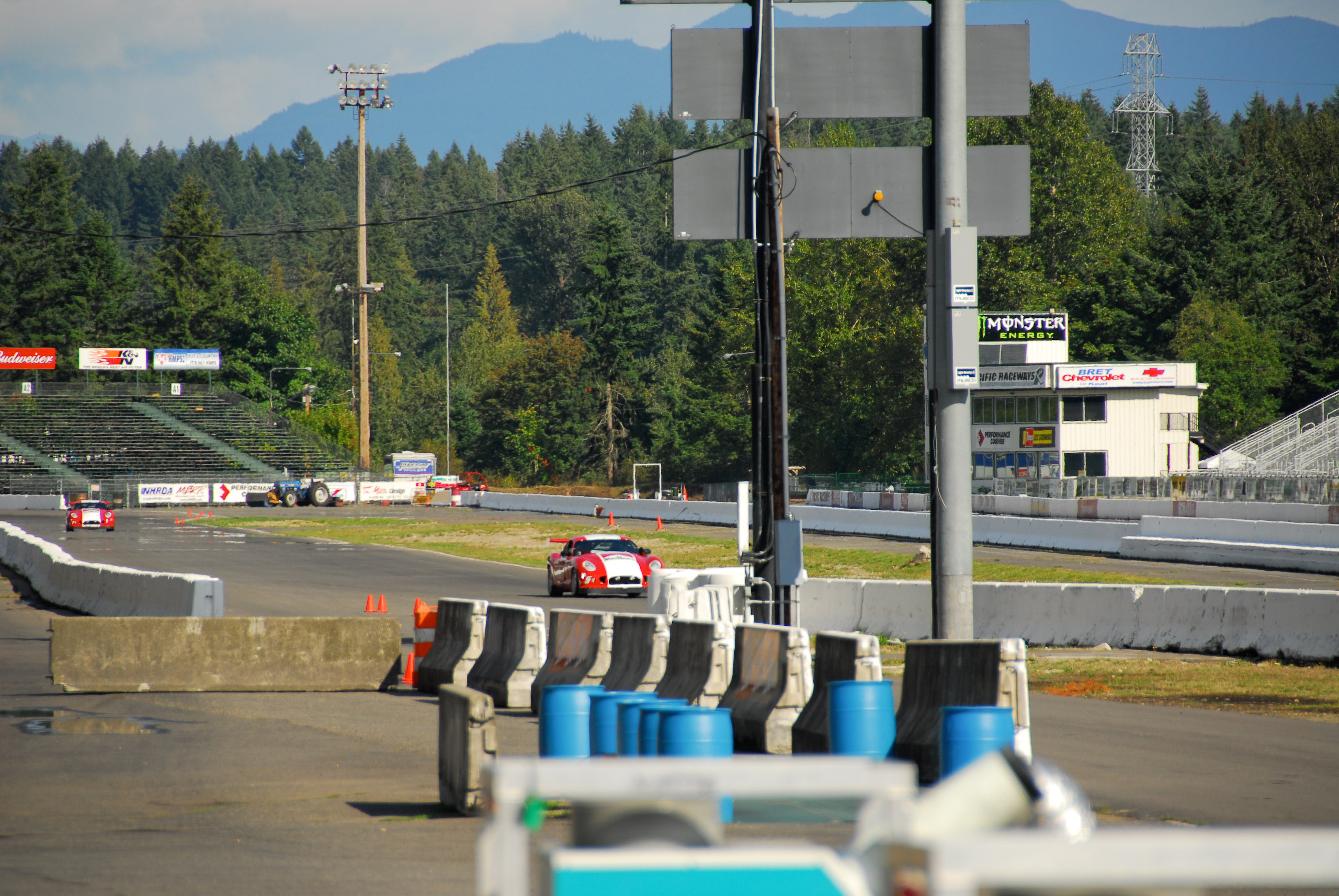 Roaring up the straight